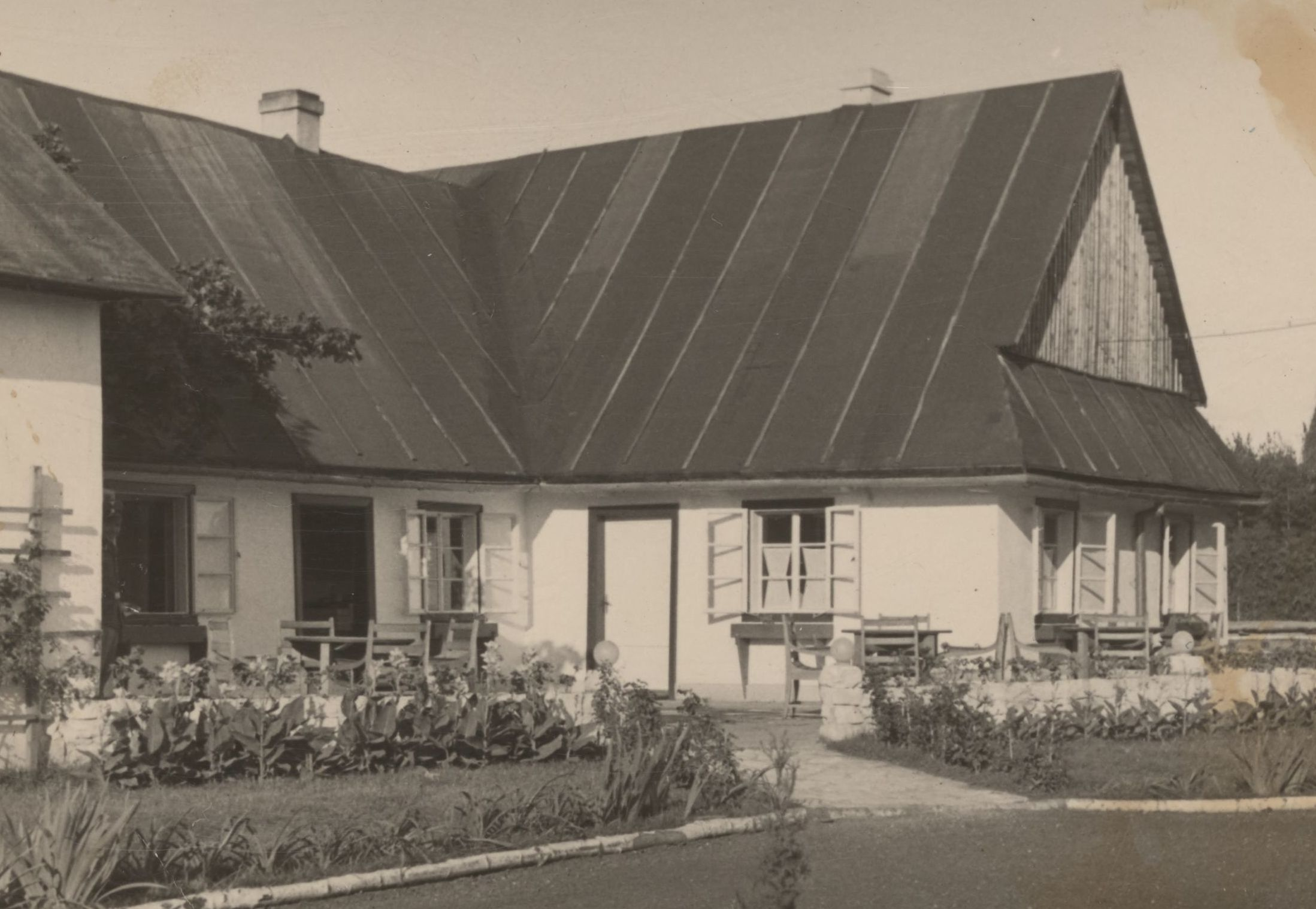 The "New Kasino" at Sobibor extermination camp which served as a canteen. This L-shaped building was located in the Vorlager, adjacent to the green house. Also known as "The Merry Flea". During the revolt, Karl Frenzel fired on escaping prisoners with his back to the outer south-facing wall of this building.